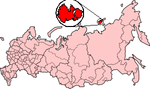 Kotelniy Island, Bunge Land and Faddeevski Peninsula together, Russia Created from other Wikipedia Russia maps